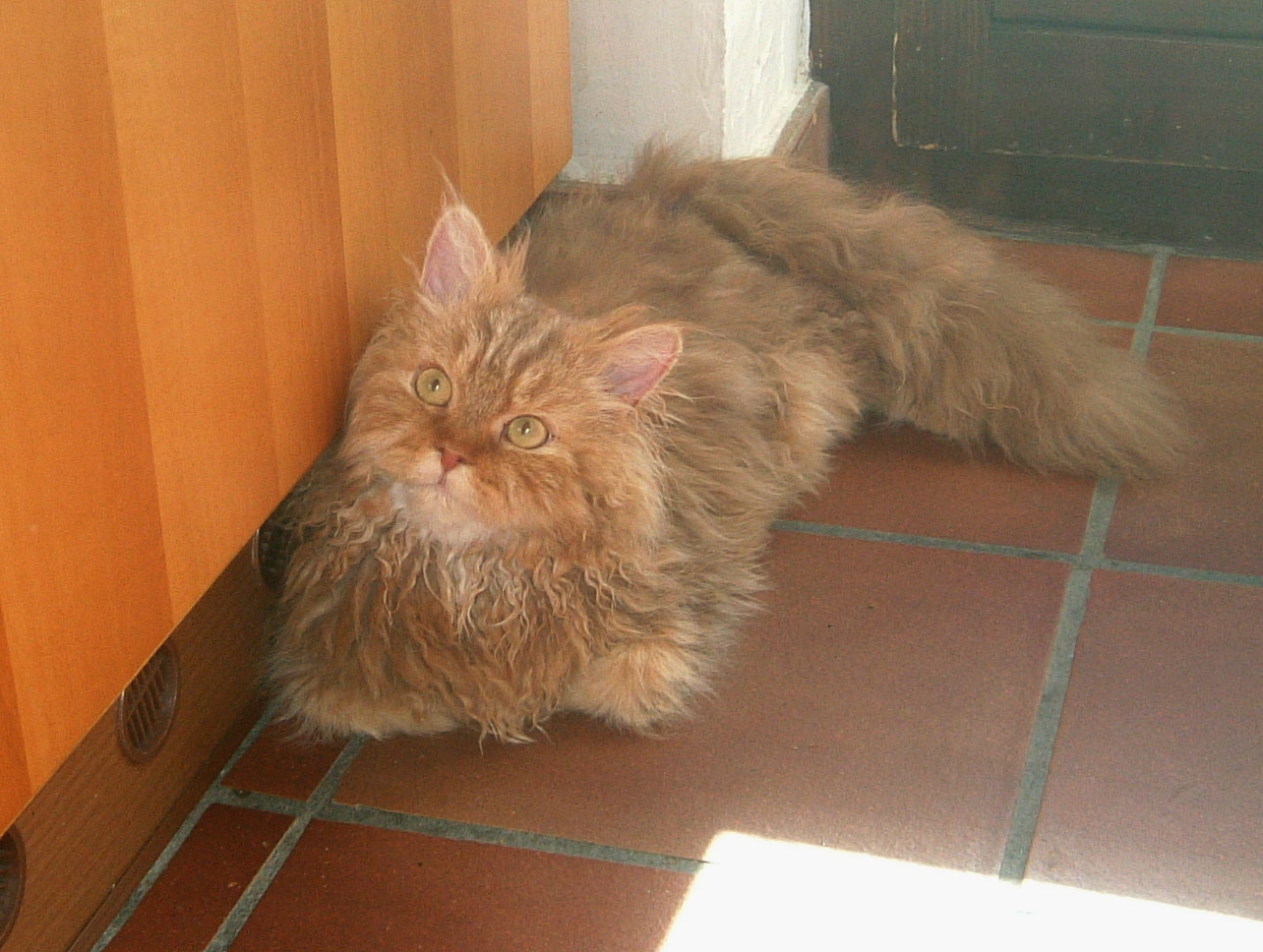 Picture of my Selkirk Rex cat.